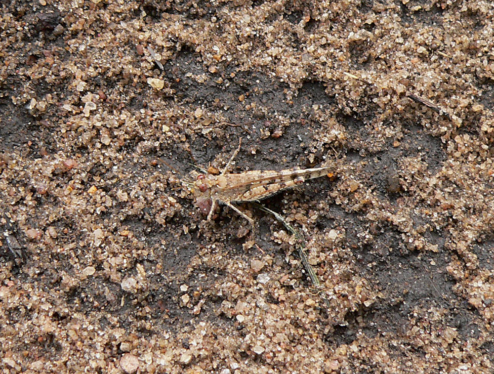 Acrotylus blondeli photographed near Tchatchou, Benin Republic.